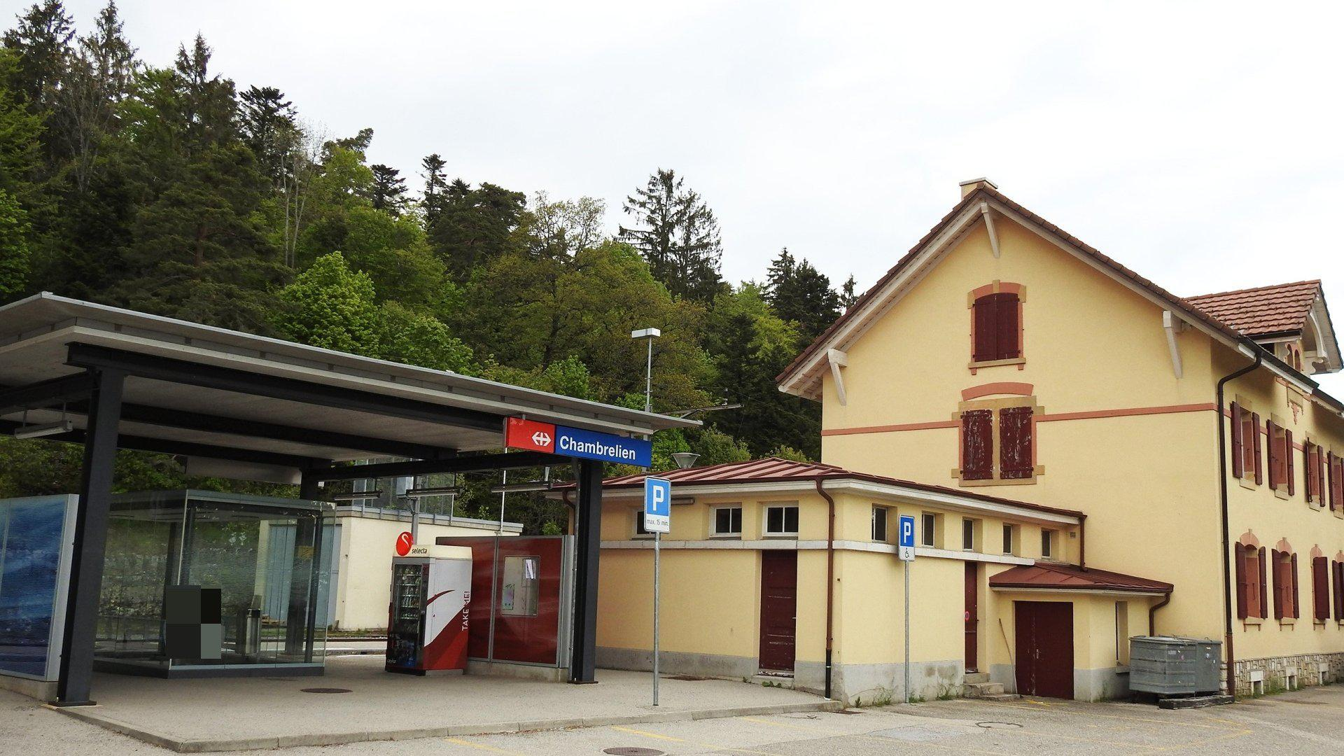 Chambrelien railway station in Rochefort, Switzerland.